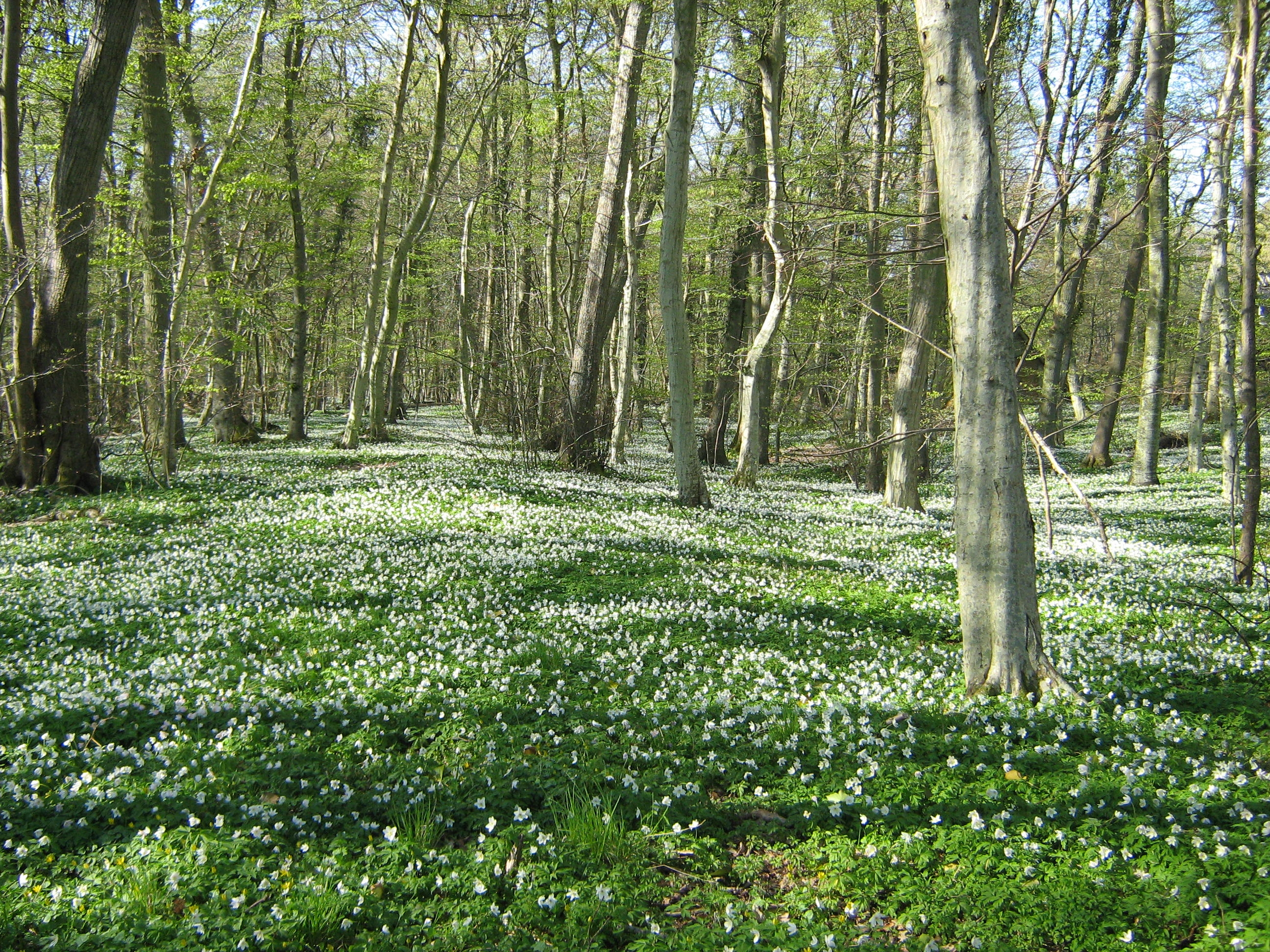 Ulvshale Forest on the Danish island of Møn